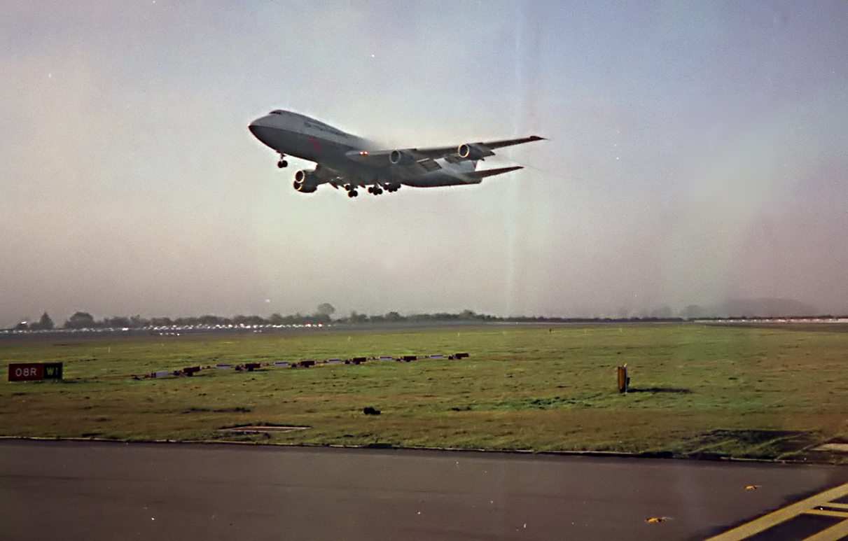 BA 747. Taken from the jump seat of an ATR72 departing for Newcastle - Dairn was captain.